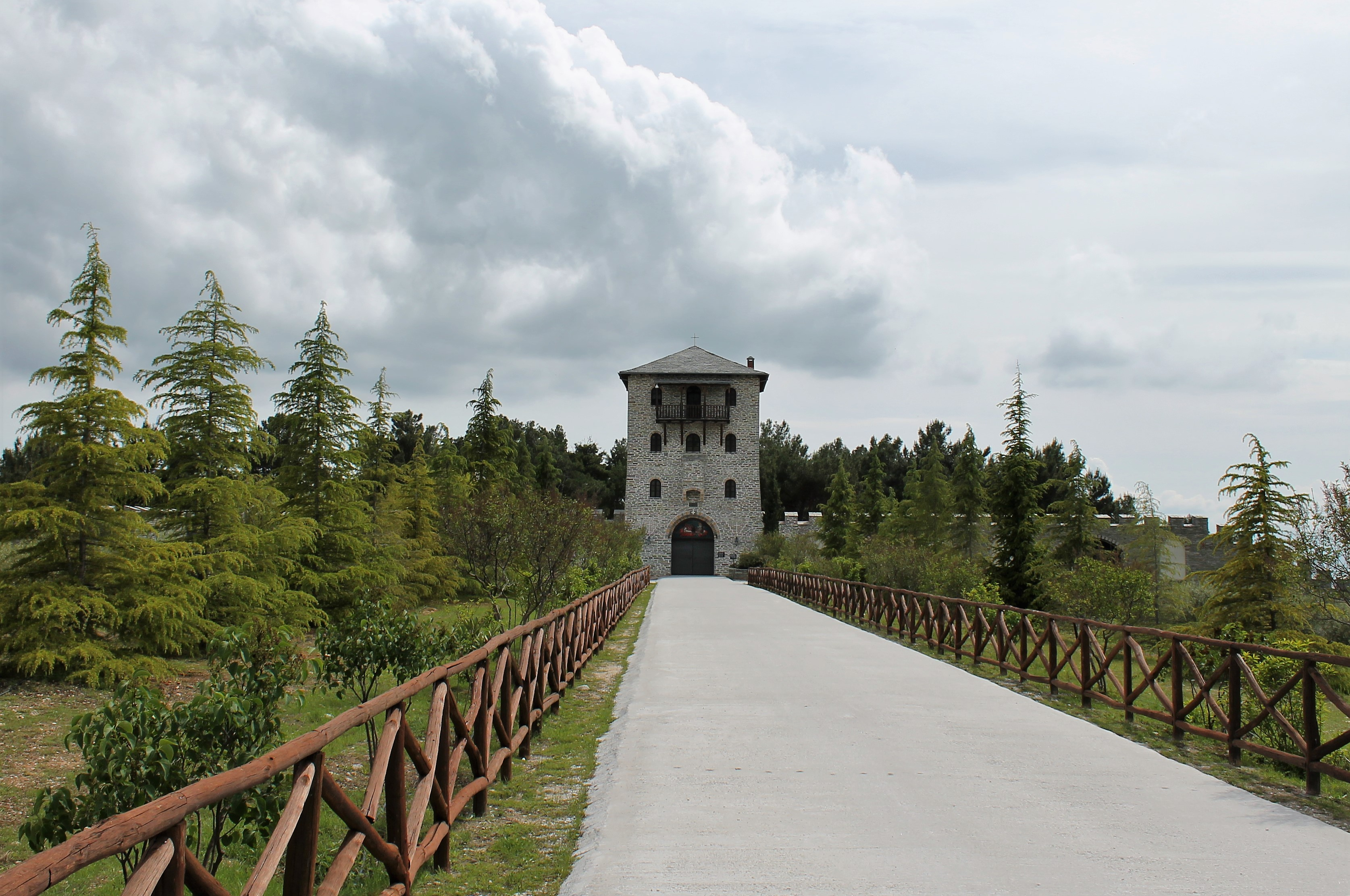 The main entrance of the St. Elijah Monastery near the village of Agio Pnevma (Veznik)